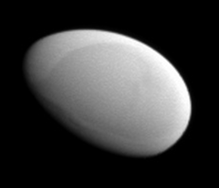 It's difficult not to think of an egg when looking at Saturn's moon Methone, seen here during a Cassini flyby of the small moon. The relatively smooth surface adds to the effect created by the oblong shape. Small moons like Methone are not generally spherical in shape like the larger moons. Their small sizes means that they lack sufficient gravity to pull themselves into round shape. Scientists think that the elongated shapes of these moons may be a clue to how they formed. Lit terrain seen here is on the leading side of Methone (2 miles, 3 kilometers across). North on Methone is up. The image was taken in visible light with the Cassini spacecraft narrow-angle camera on May 20, 2012. The view was obtained at a distance of approximately 3,000 miles (4,000 kilometers) from Methone and at a Sun-Methone-spacecraft, or phase, angle of 63 degrees. Scale in the original image was 88 feet (27 meters) per pixel. The image has been magnified by a factor of 2. The Cassini Solstice Mission is a joint United States and European endeavor. The Jet Propulsion Laboratory, a division of the California Institute of Technology in Pasadena, manages the mission for NASA's Science Mission Directorate, Washington, D.C. The Cassini orbiter was designed, developed and assembled at JPL. The imaging team consists of scientists from the US, England, France, and Germany. The imaging operations center and team lead (Dr. C. Porco) are based at the Space Science Institute in Boulder, Colo. The original NASA image has been modified by cropping and a further doubling of the linear pixel density.